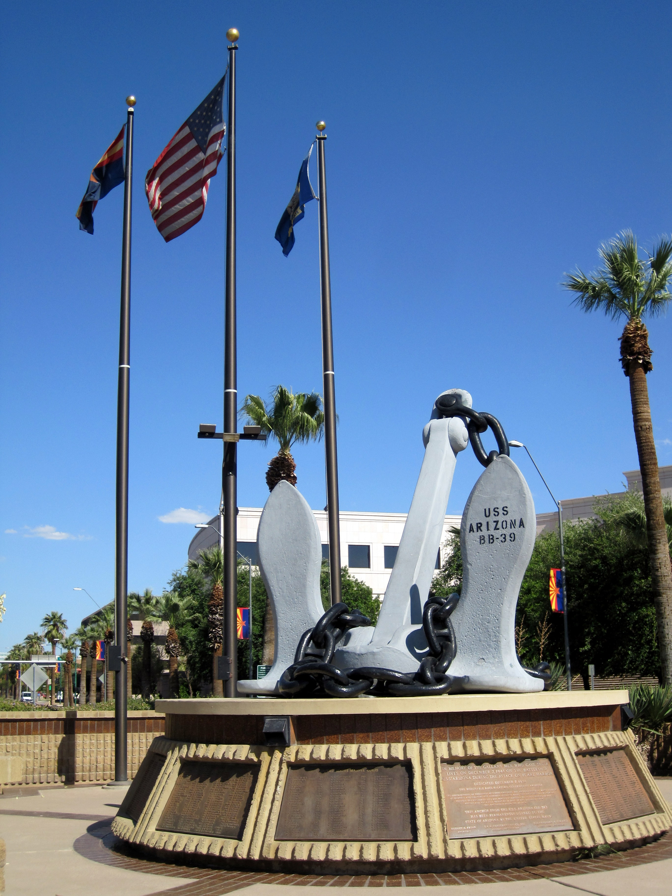 Anchor of the USS Arizona on display at Wesley Bolin Memorial Plaza, Phoenix, AZ.